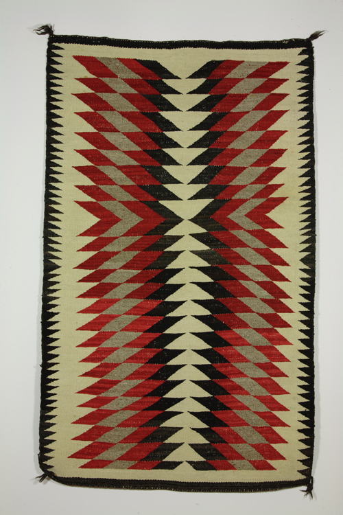 Navajo Germantown Eye Dazzler Rug: Rectangular woven rug; red, grey, and black integrated diamond design on a natural colored field with black border; small black knotted tassel on each corner. Colorful wool yarn was manufactured at the Germantown, Philadelphia textile mills. It was very tightly spun three ply (very rare 1865-1875) or four ply (1875-1895) yarn, available in a variety of bright colors produced from commercial aniline dyes. Germantown yarn was imported by the Santa Fe Railroad during a brief period at the end of the 19th century and sold to Navajo traders.